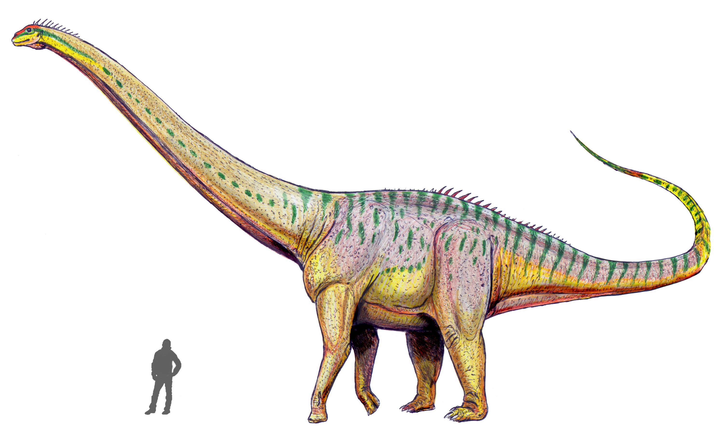 Amphicoelias altus reconstruction